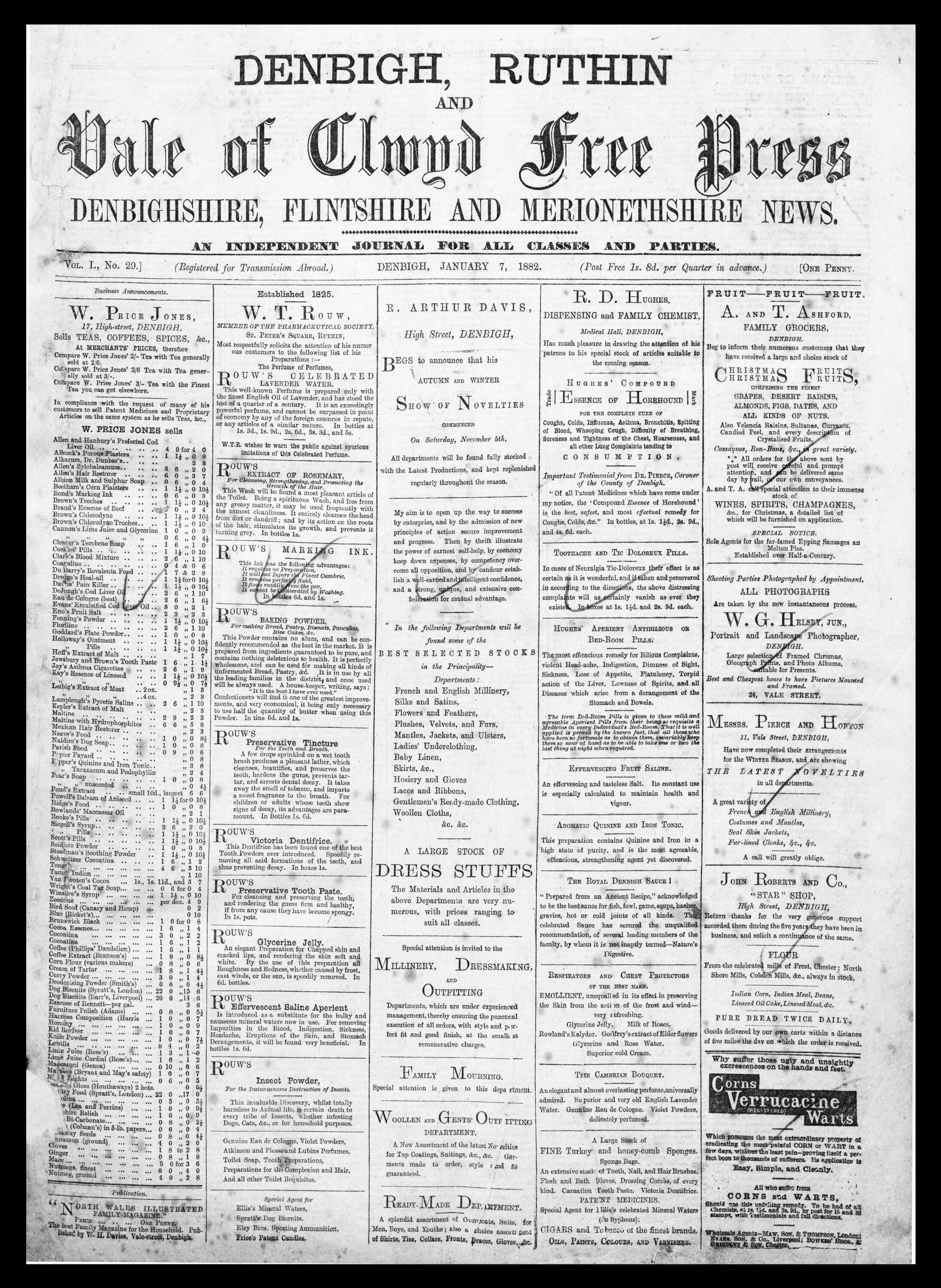 Front page of the earliest surviving copy of the Welsh newspaper Denbigh, Ruthin and Vale of Clwyd Free Press